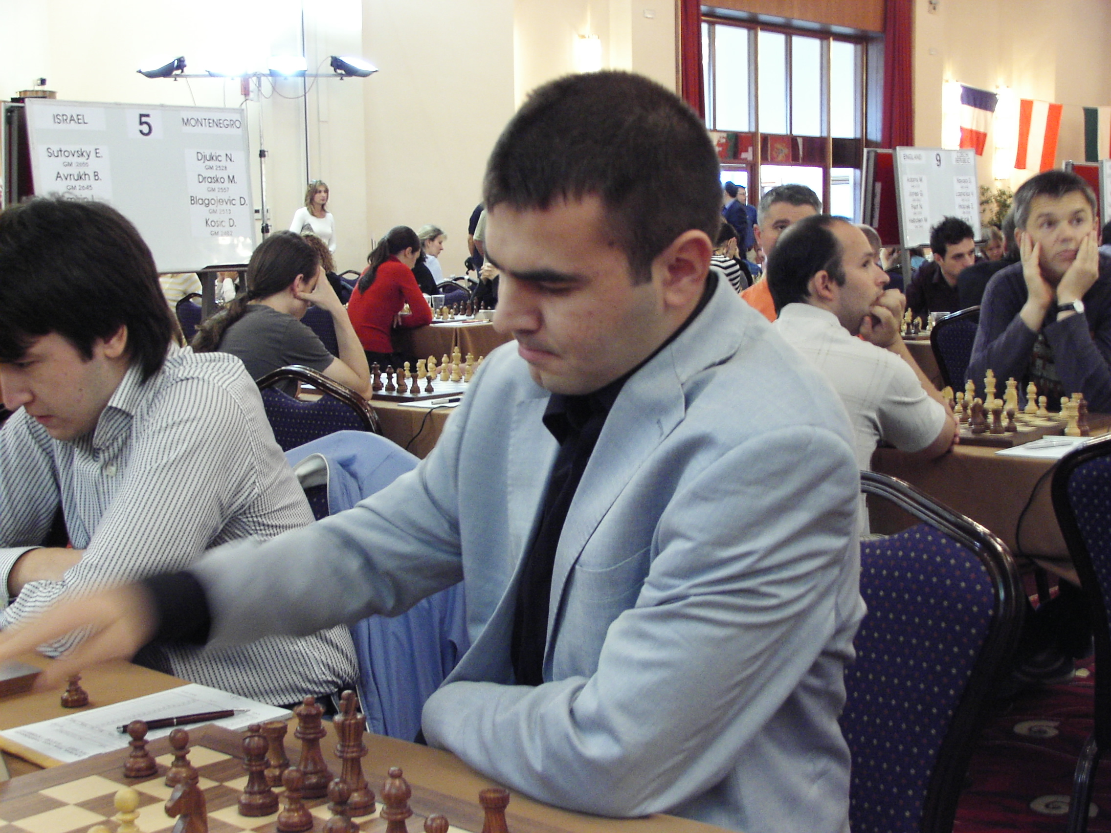 Şəhriyar Məmmədyarov during Eurochess 2007